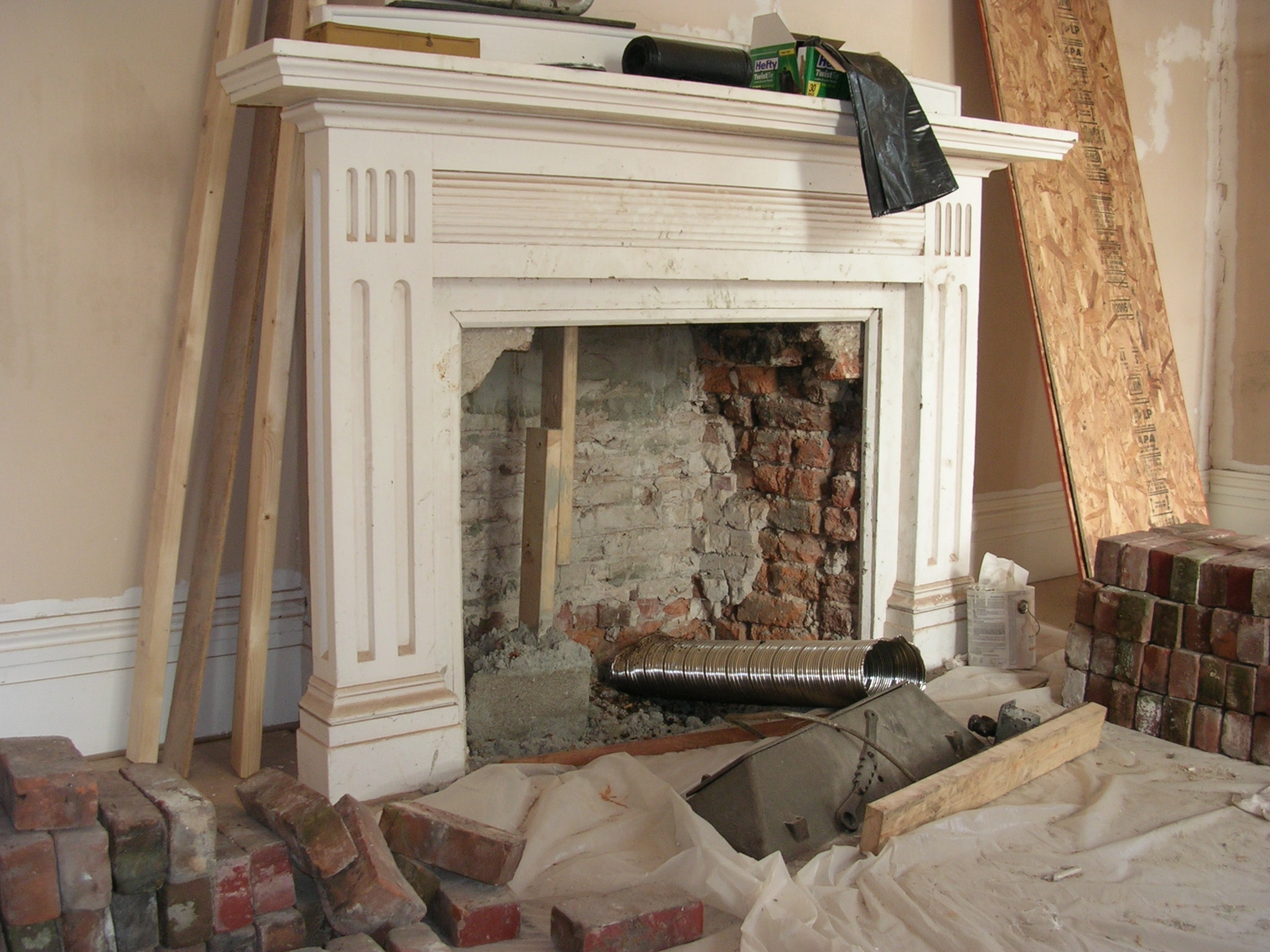 Mantlepiece in parlor at Annefield, Charlotte county, Virginia